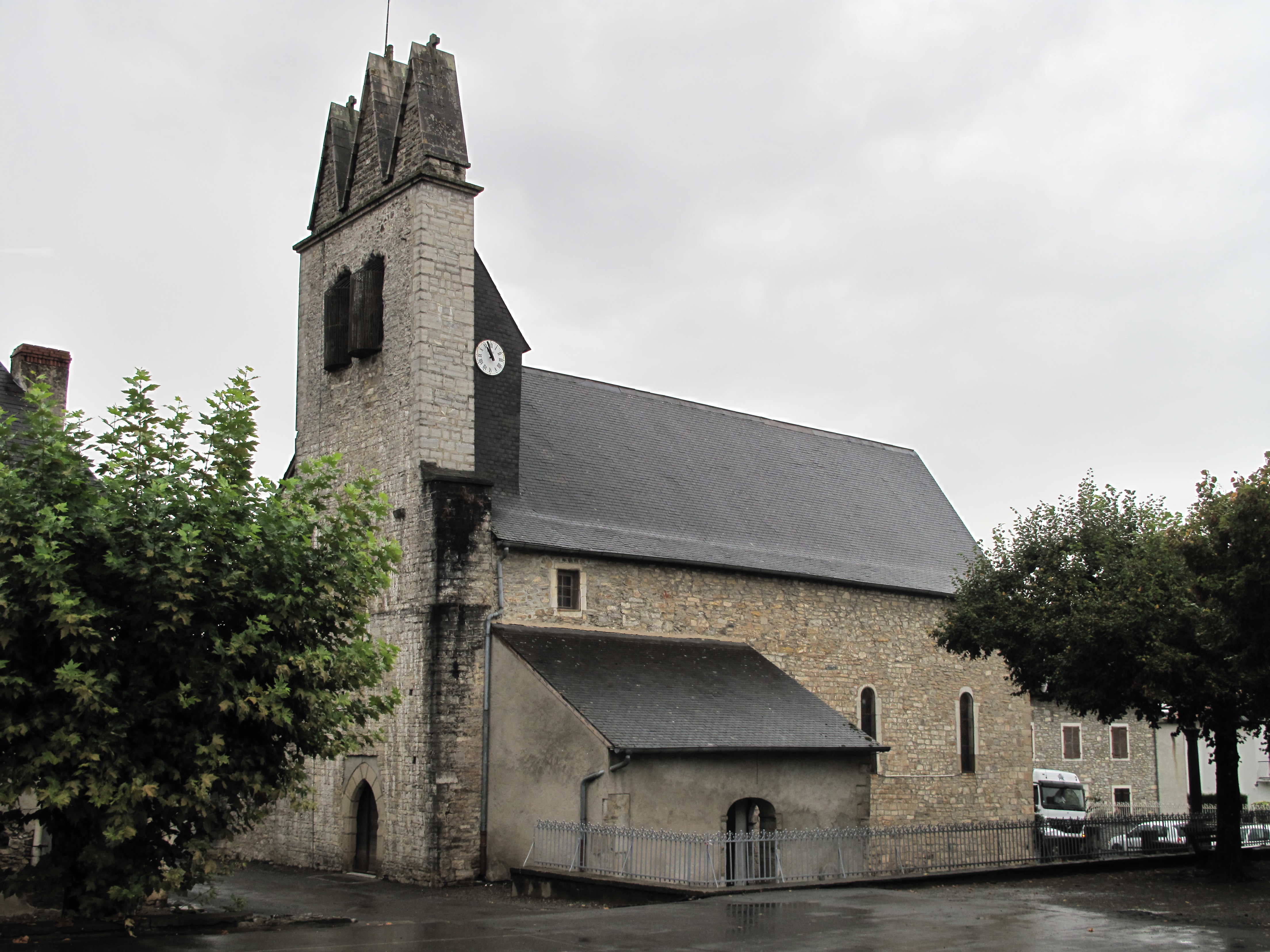 The church of Viodos with a trinitarian steeple, Pyrénées-Atlantiques, France